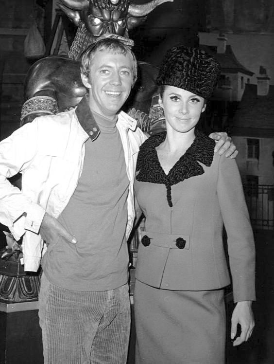 Photo of Stefanie Powers and Noel Harrison from the television program The Girl from U.N.C.L.E..